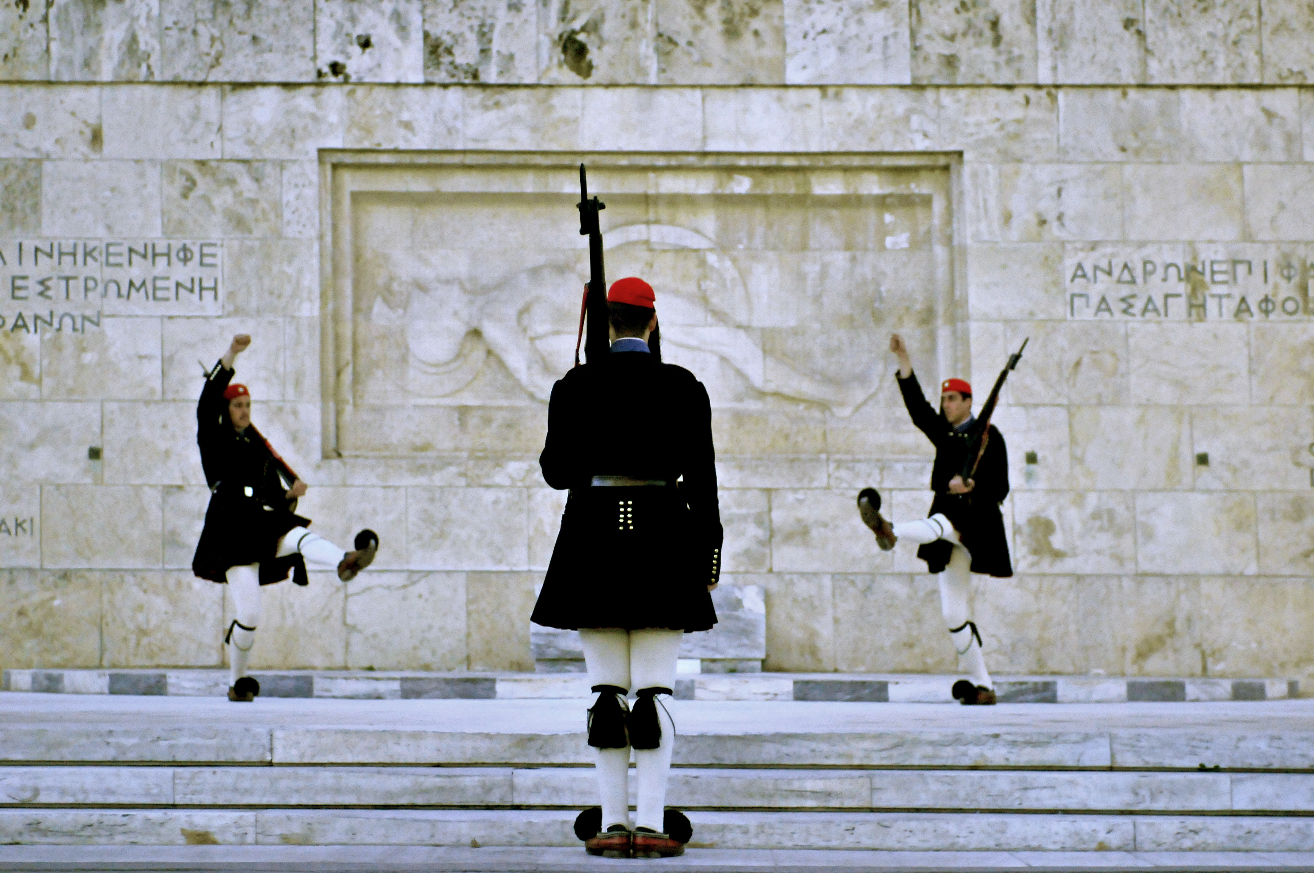 Soldiers standing guard in front of the Tomb of the Unknown Soldier. Athens, Attica, Greece